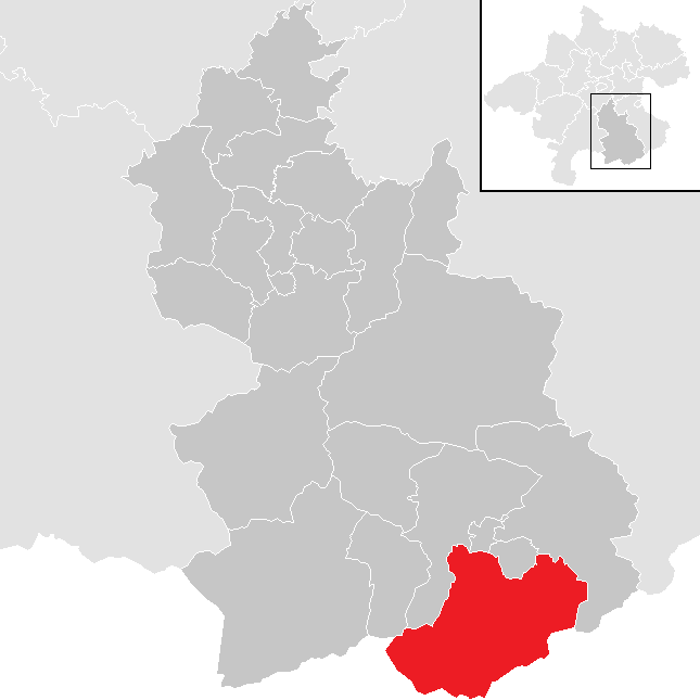 district Kirchdorf an der Krems